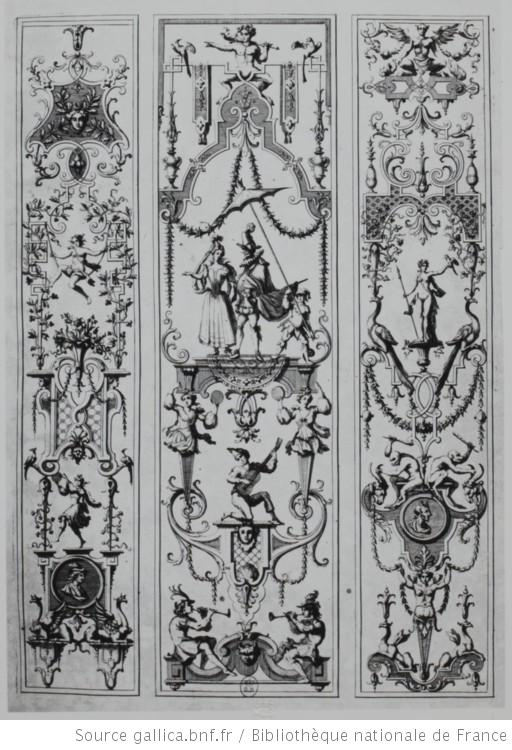 Jean Bérain père - Arabesque -XVII